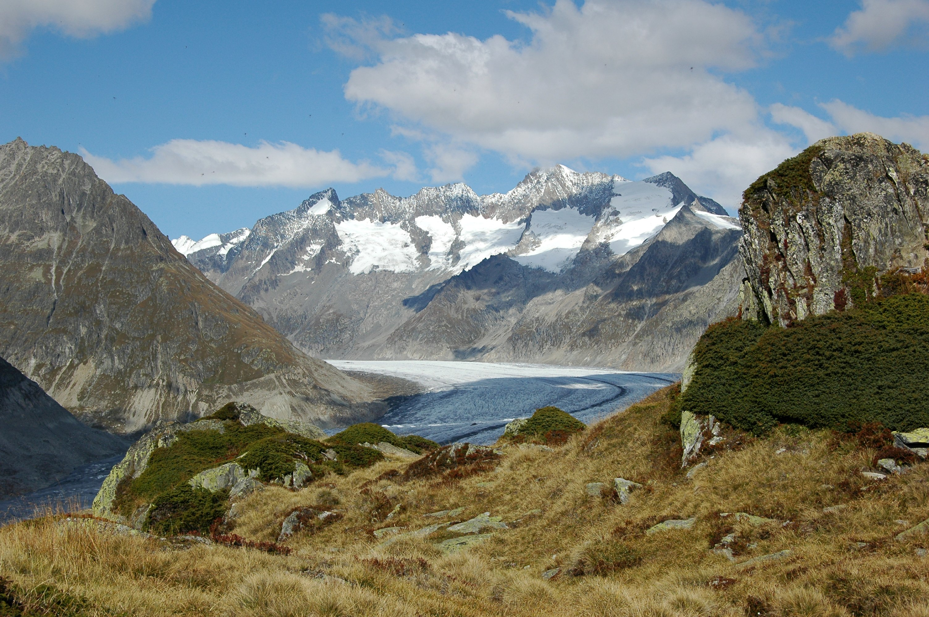 Aletsch glacier